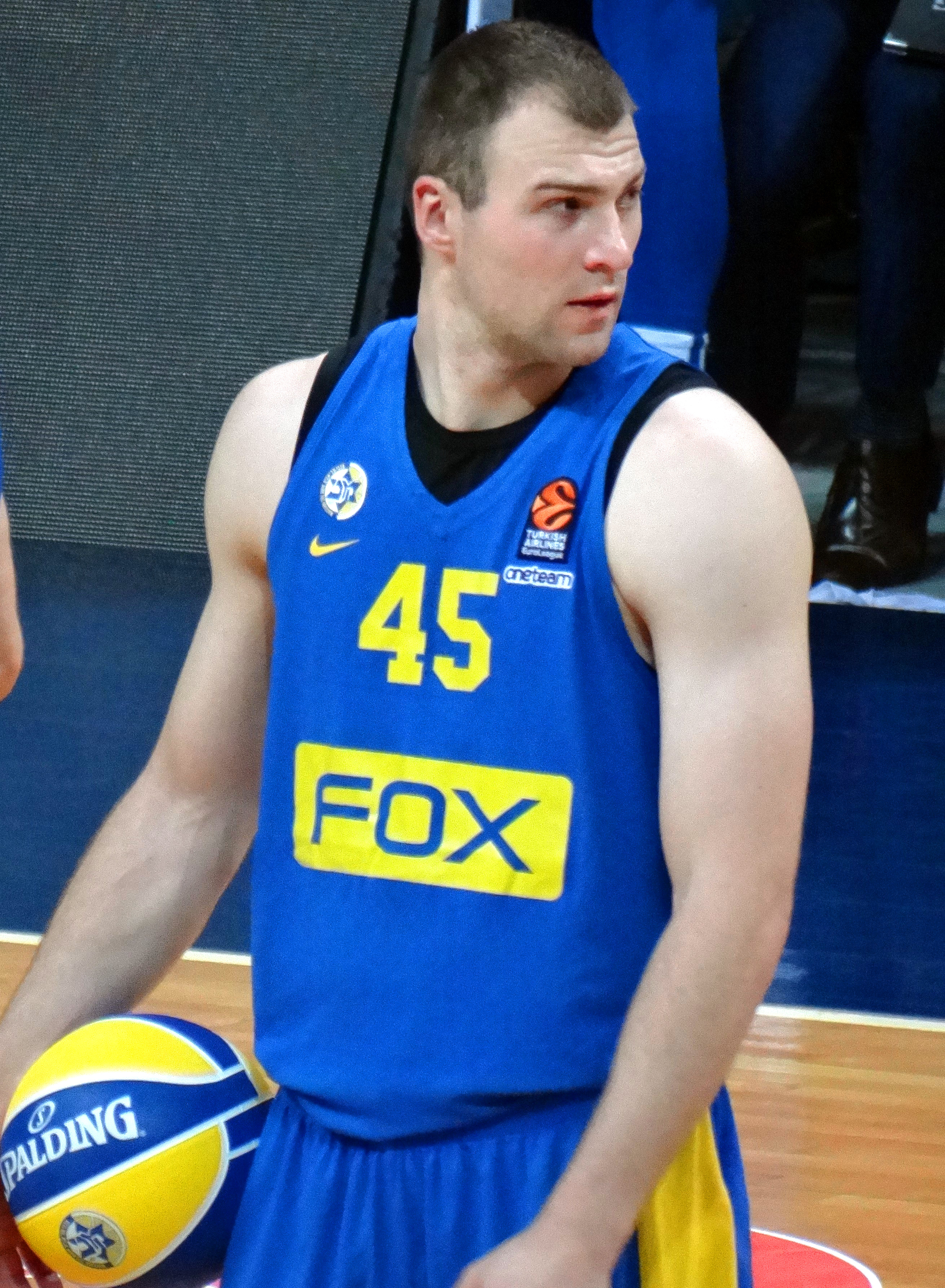 Artsiom Parakhouski 45 Maccabi Tel Aviv B.C. EuroLeague 20180320